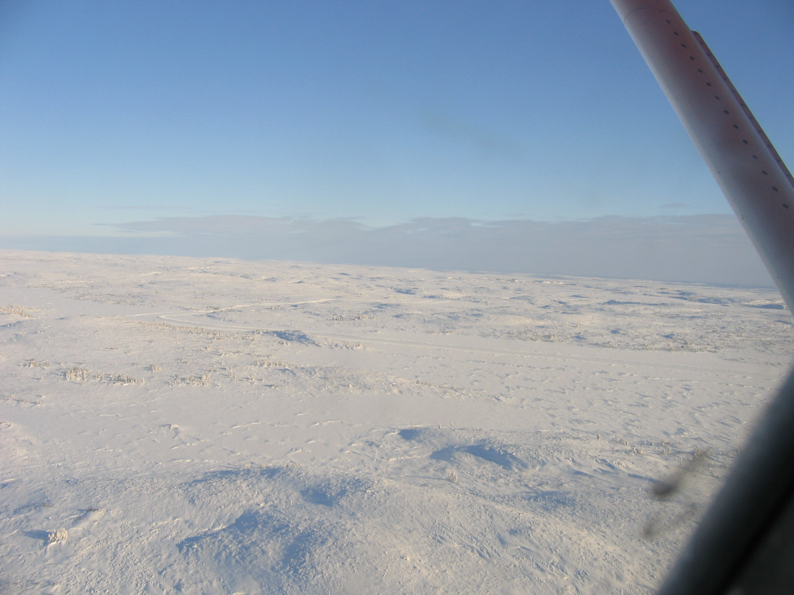 The low arctic tundra in Canada, just above the treeline, from the air during winter